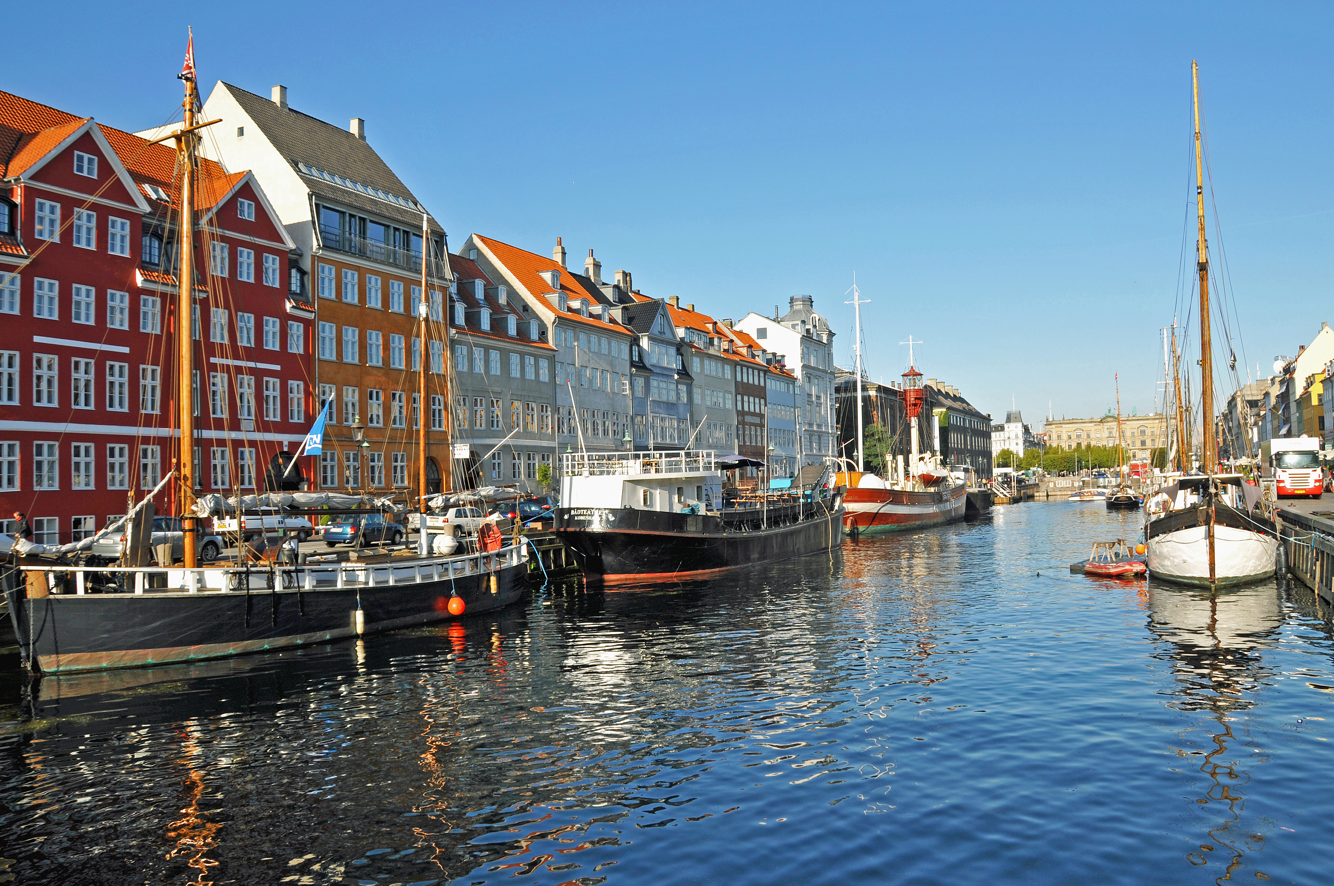 PLEASE, no multi invitations in your comments. Thanks. This is the Nyhavn Canal area of Copenhagen. On the left in the red building is where Hans Christian Anderdson lived in May 1835 after publishing his first adventure booklet. The third boat down on the left is the Lightship XVII.